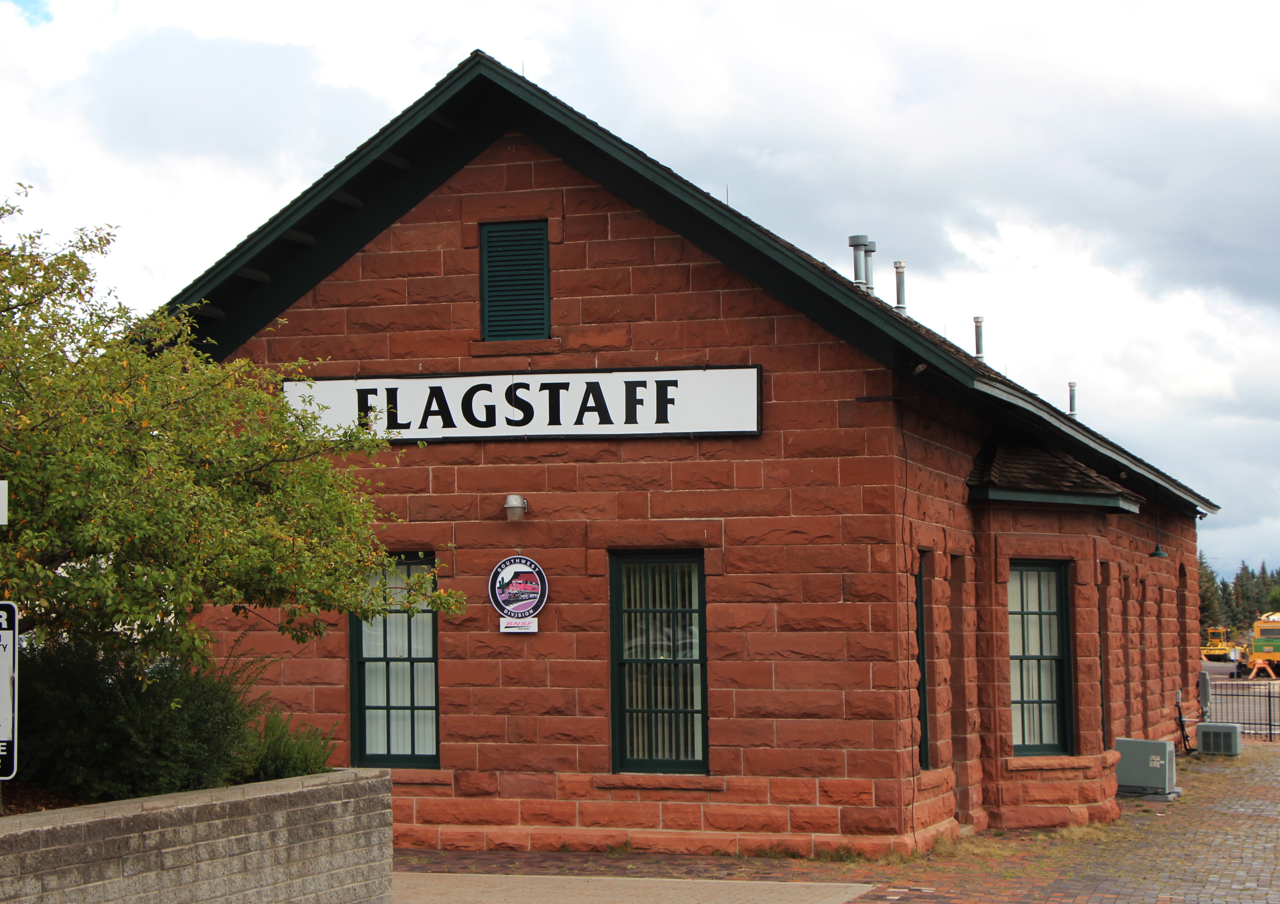 Santa Fe Depot 1889, Route 66, Flagstaff, AZ